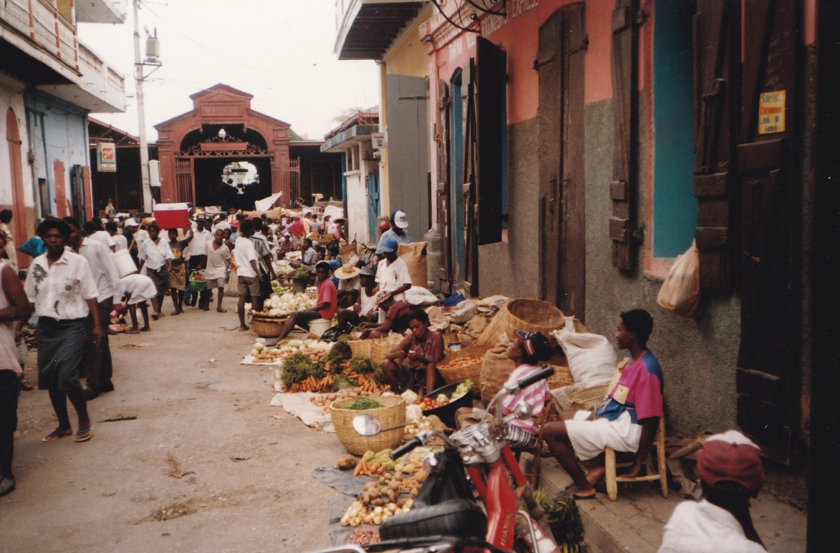 Shopping street in Port au Prince(?)